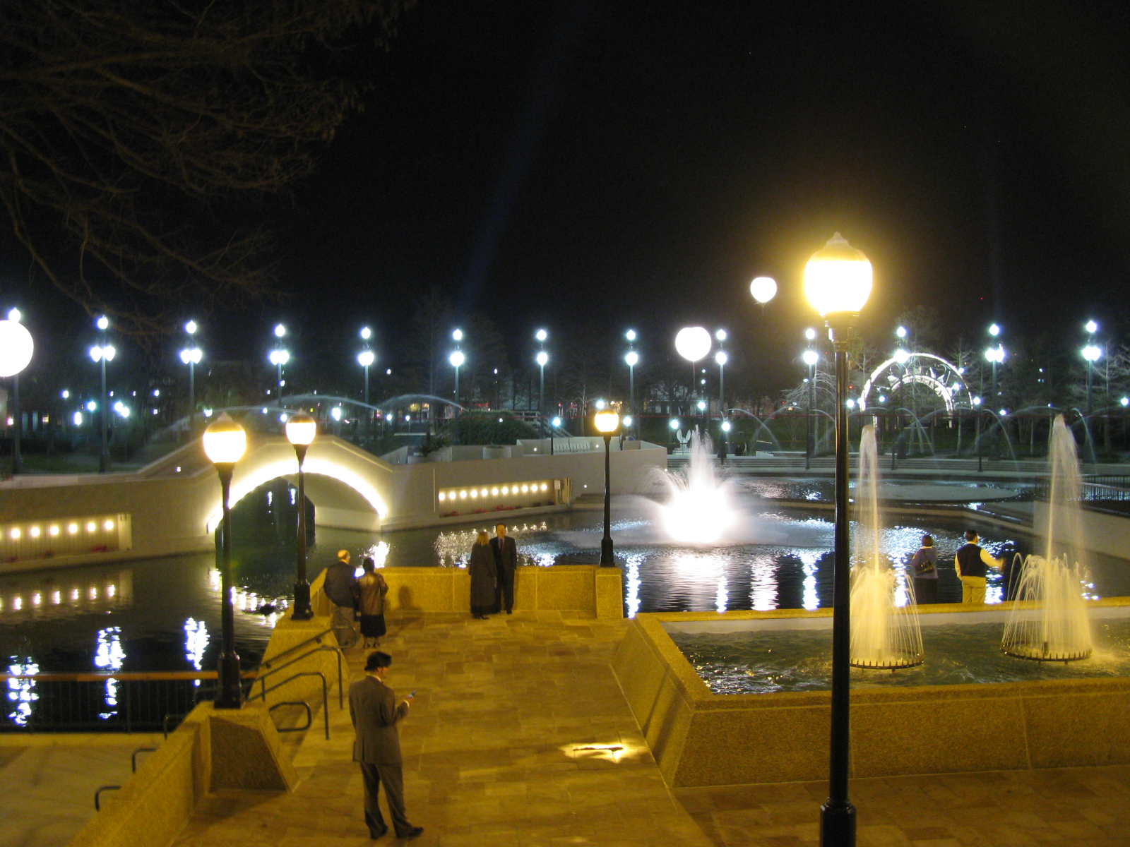 New Orleans, LA: Night view of Armstrong Park from front of Mahalia Jackson Theater.